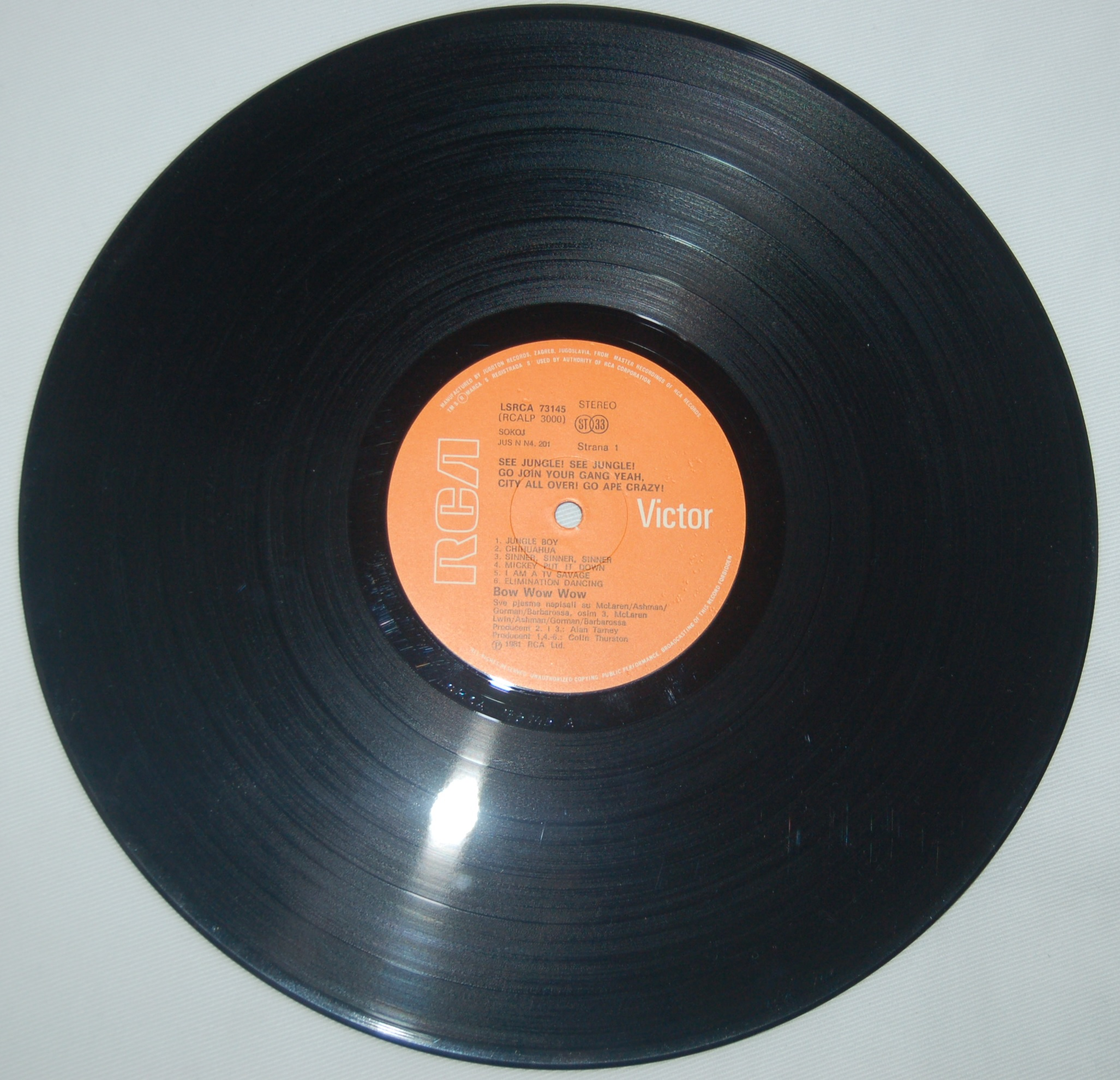 See Jungle! See Jungle! Go Join Your Gang, Yeah! City All Over, Go Ape Crazy! - Vinyl record picture